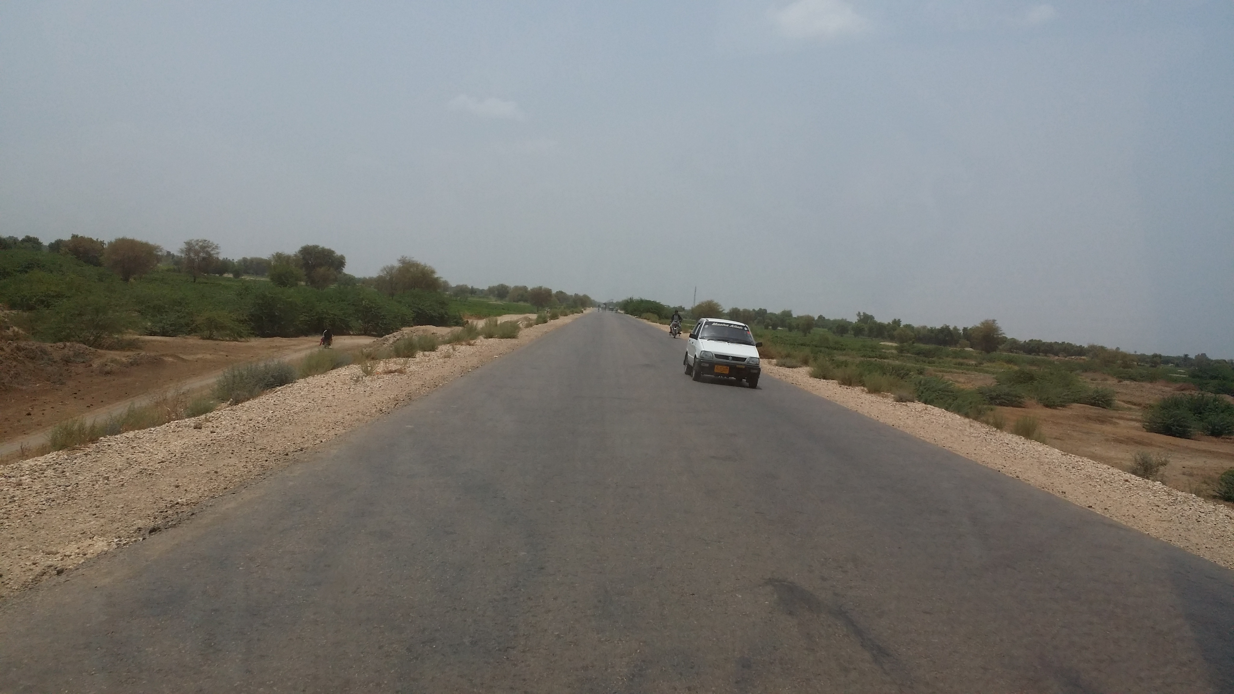 Mehran Highway (Kumb–Nawabshah road prior to reconstruction), provincially maintained Highway S-31